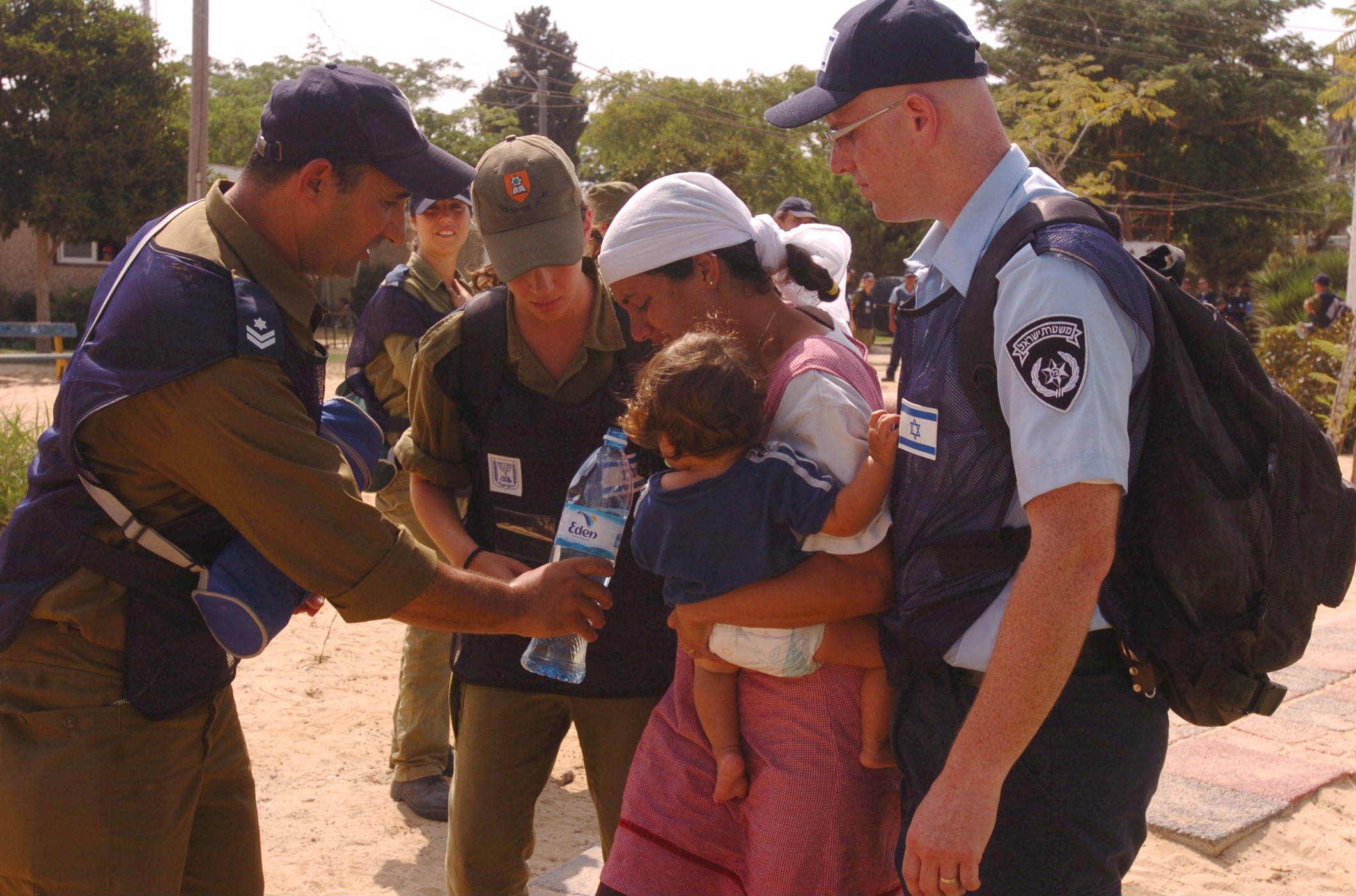 August 17, 2005. The evacuation of the Israeli community Morag was part of the Gaza Disengagement, which occurred during the summer of 2005.